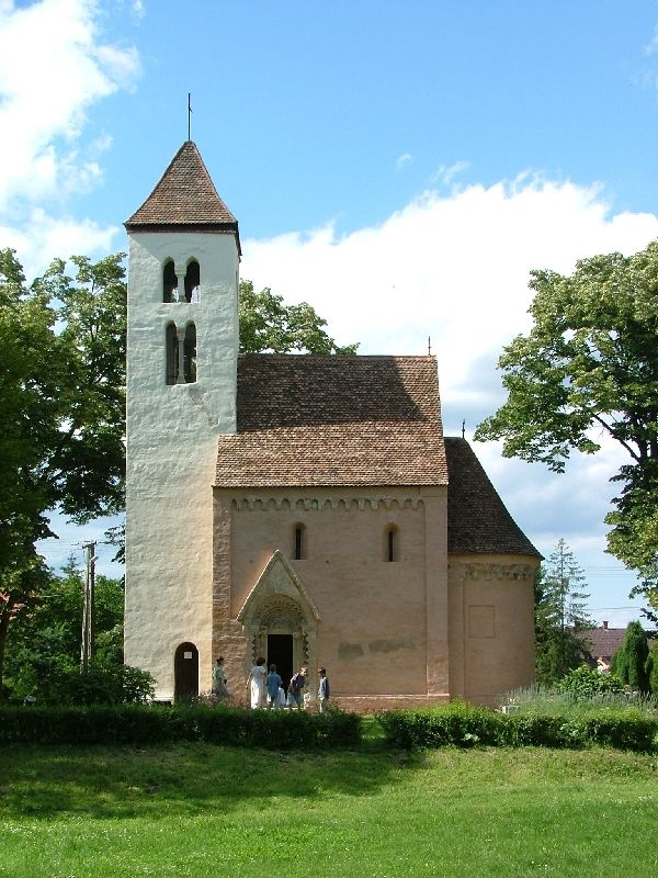 Author: Attila SZÉP Place: Csempeszkopács, Hungary, Chapel Date: 3. July 2004